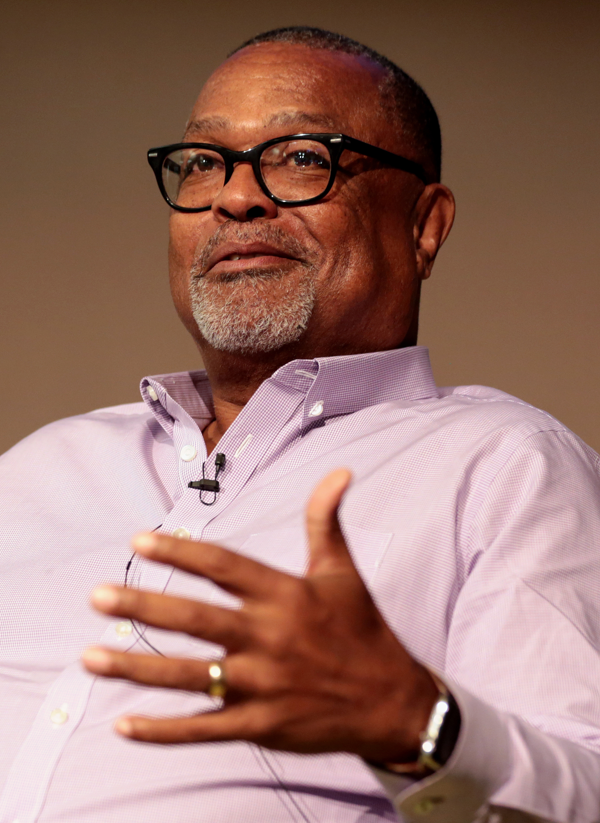 Kenneth L. Shropshire speaking at an event in Phoenix, Arizona.